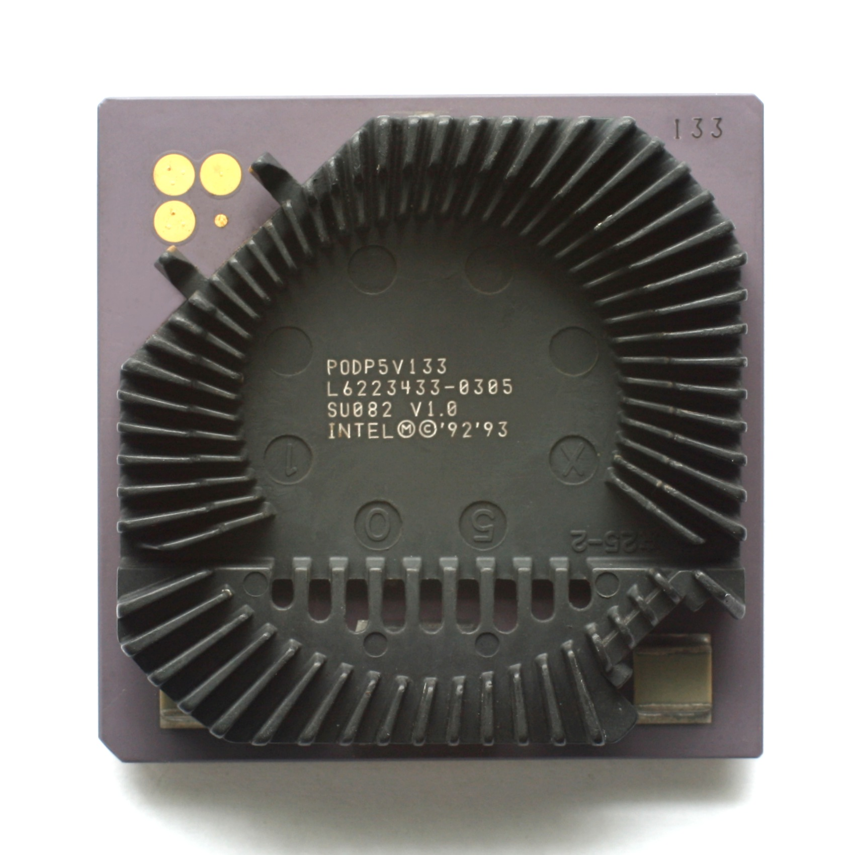 Intel Pentium Overdrive PODP5V133, 133 MHz for Socket 4 (Pentium, 5V) without fan.